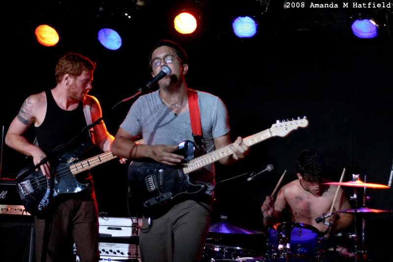 Live photo of Kenny, Mike and Adam playing as Sunfold at Mercury Lounge on July 26, 2008.